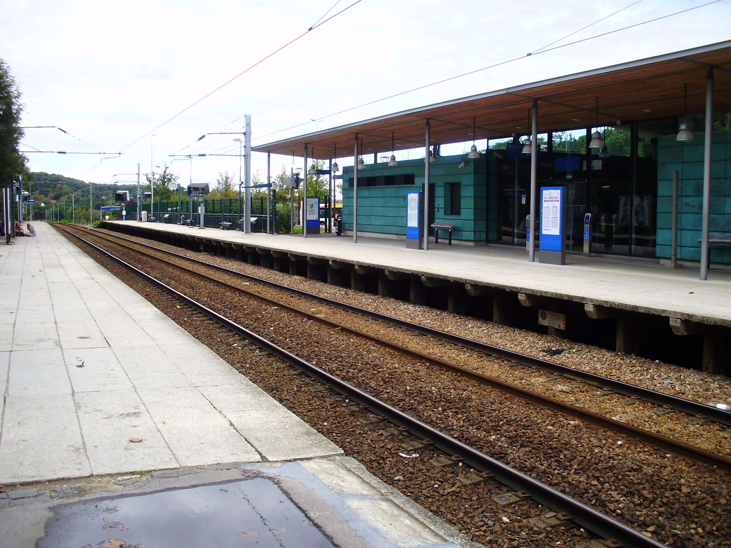 La Celle-Saint-Cloud station, Yvelines, France (view towards Saint-Nom-la-Bretèche from the middle of the platform)